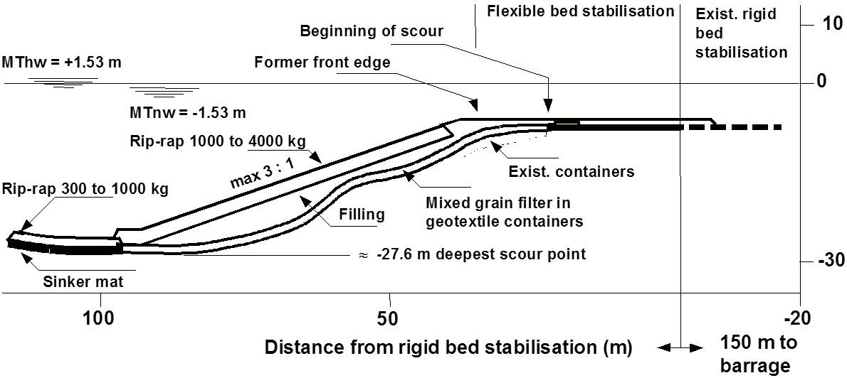 Storm tide barrage at the Eider river. Scheme of the realized profile of bed stabilization at the outer embankment. It shows the crossover from the deep, seaward scour (left) to the shallow embankment in front of the storm tide barrage construction, which is located at about 150 m to the right (M Thw: Mean high tide water level).